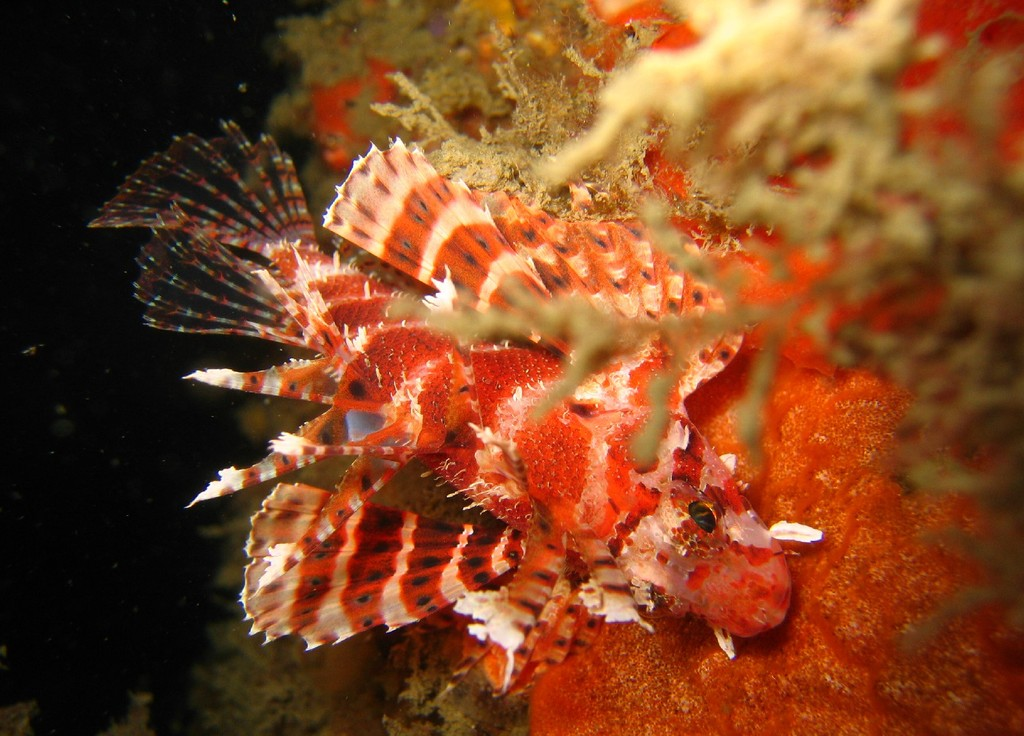 A Dwarf Lionfish (Dendrochirus brachypterus) resting on sponges. Clifton Gardens, Mosman, NSW